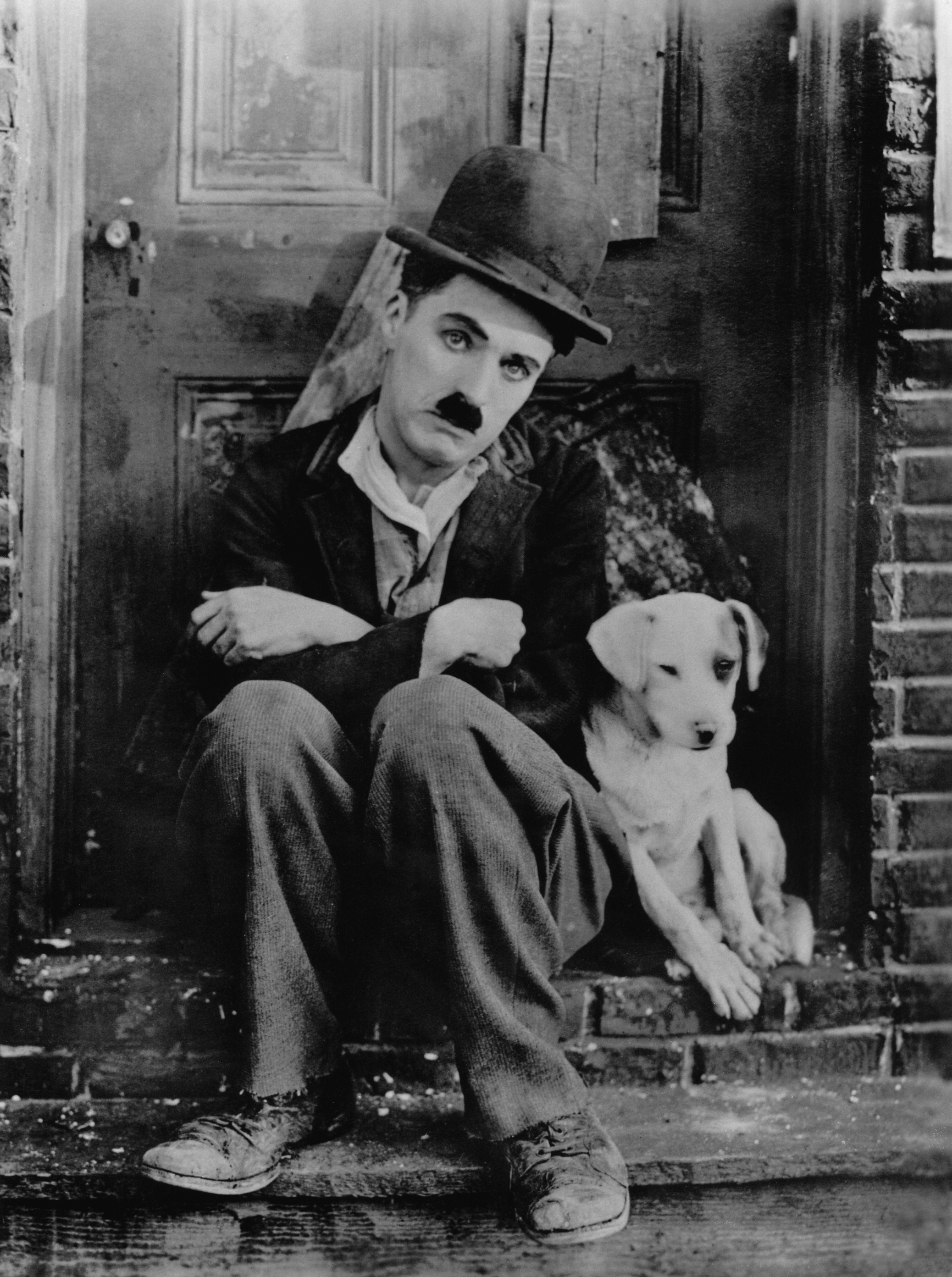 Promotional image for the 1918 Charlie Chaplin film A Dog's Life